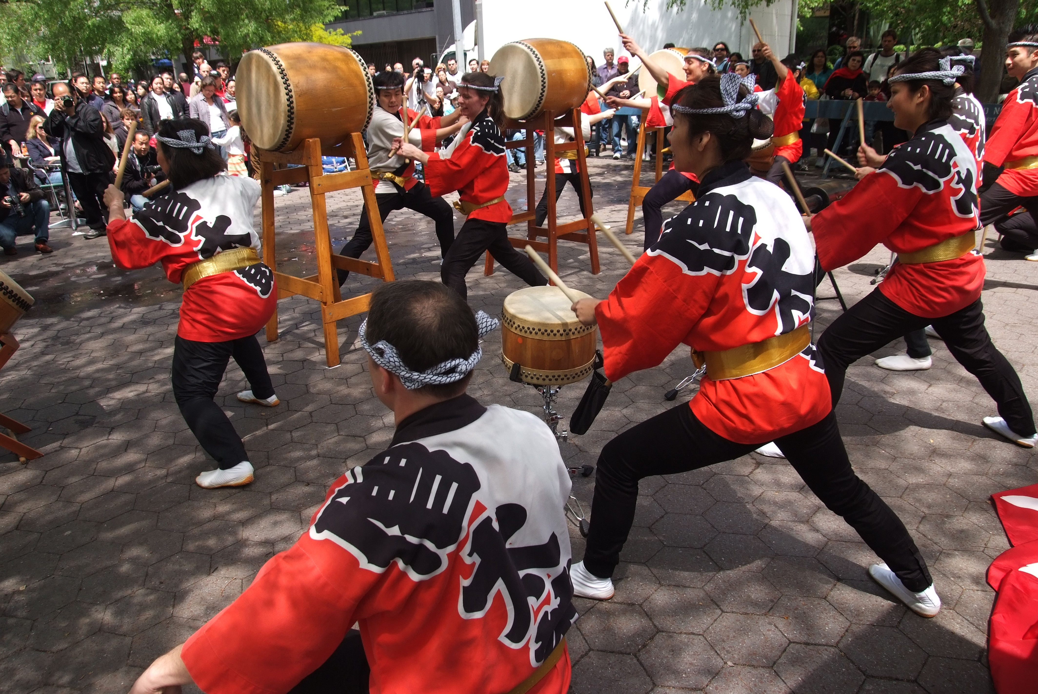 New York-based taiko group Soh Daiko performing at the 29th Asian Pacific American Heritage Festival